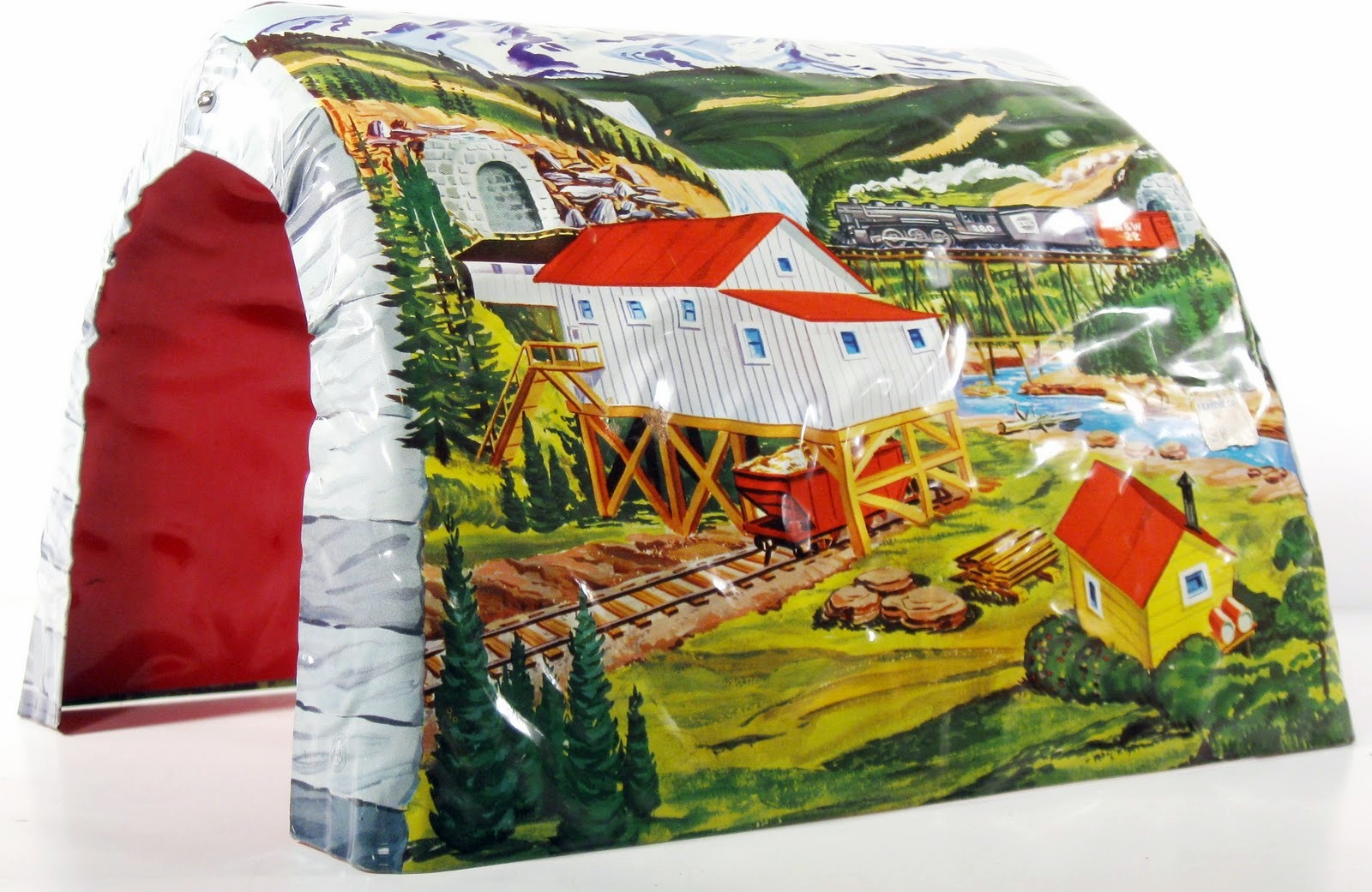 See filename and metadata for description.